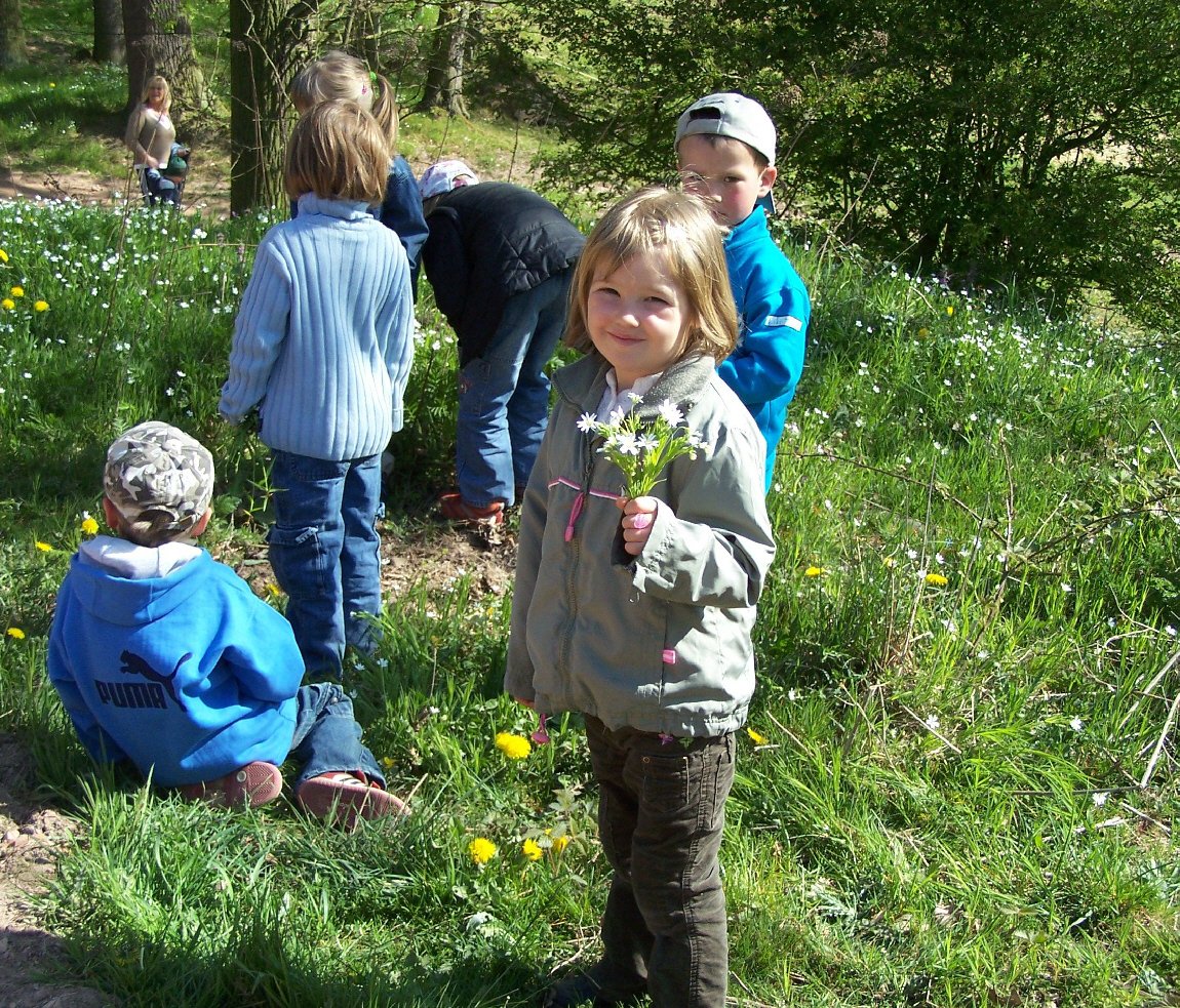 A magic place full of herbs and flowers near the Jesus spring at a healing hern sunday.